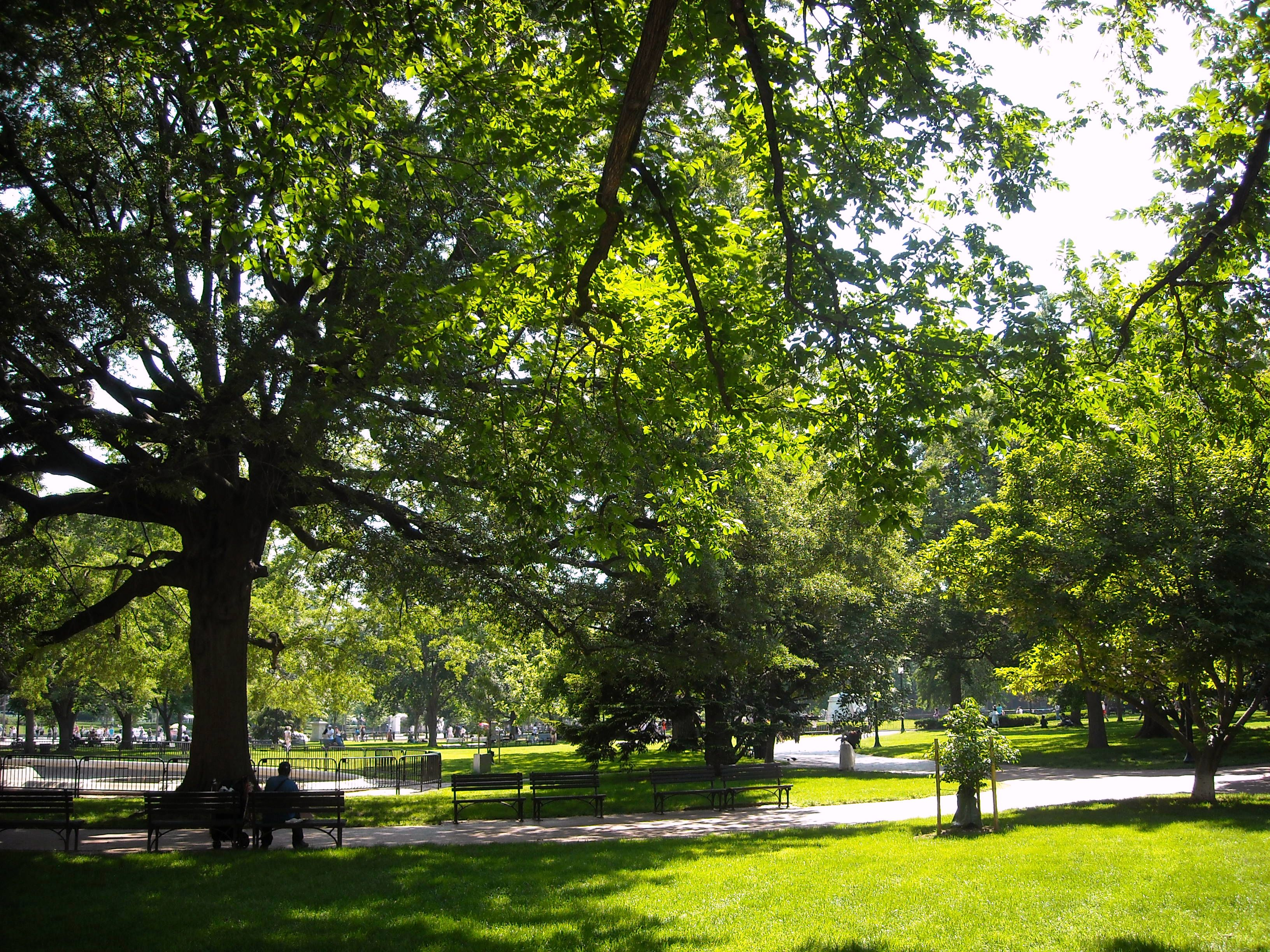 Lafayette Square in front of the White House, Washington, D.C.